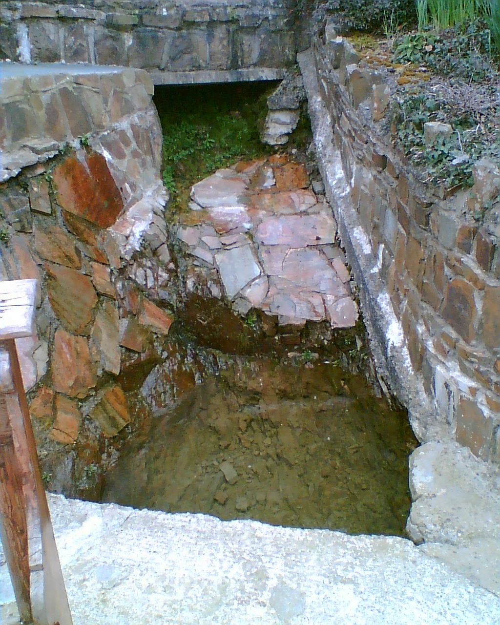 St. Brigid's well, Near Buttevant, County Cork, Ireland.